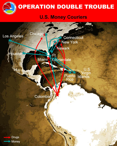 mAPA DE FLUJO DE HEROINA Y DOLARES